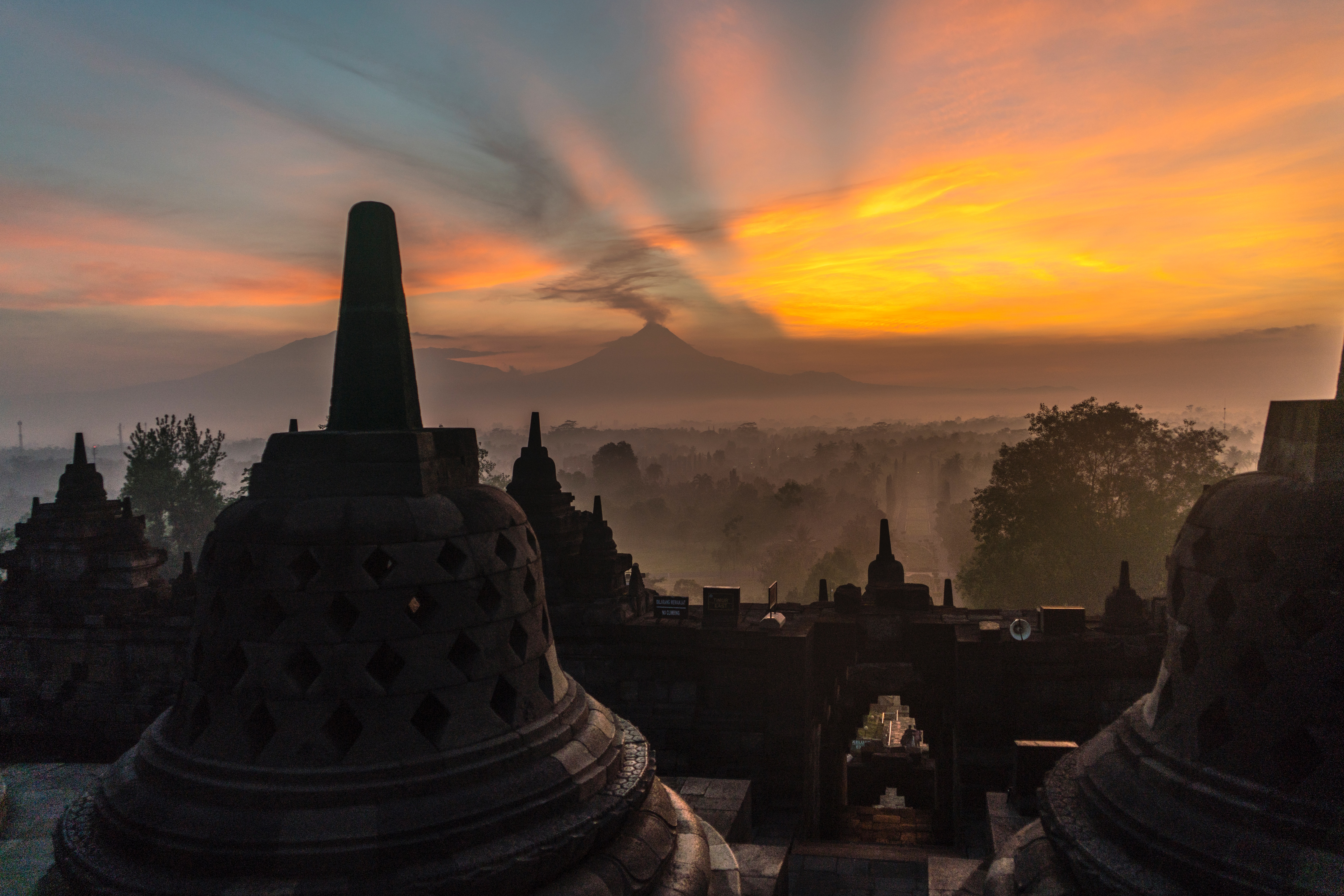 The sun rises over Borobudur Temple in Central Java.